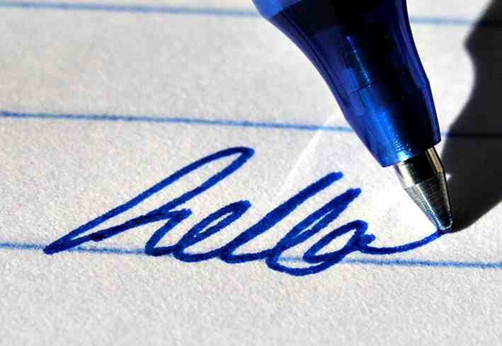 A roller ball pen with gel ink.